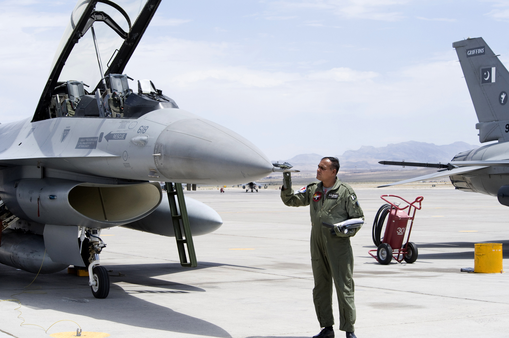 NELLIS AIR FORCE BASE, Nev.-- A Pakistan Air Force crew chief performs a post flight inspection on an F-16 Falcon after pilots and the aircraft arrive for Red Flag 10-4 July 16. The U.S. Air Force is hosting approximately 100 Pakistan Air Force pilots, maintainers and support personnel at Nellis Air Force Base for the world's premier large force employment and integration exercise July 17-31. This is the Pakistan Air Force's first time participating in Red Flag.